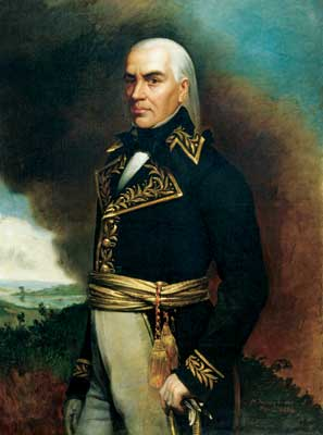 Portrait of General Francisco de Miranda by Martin Tovar y Tovar